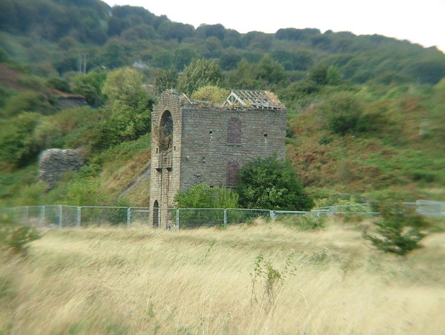 Disused mine building, former pumping house of the British Ironworks Colliery.